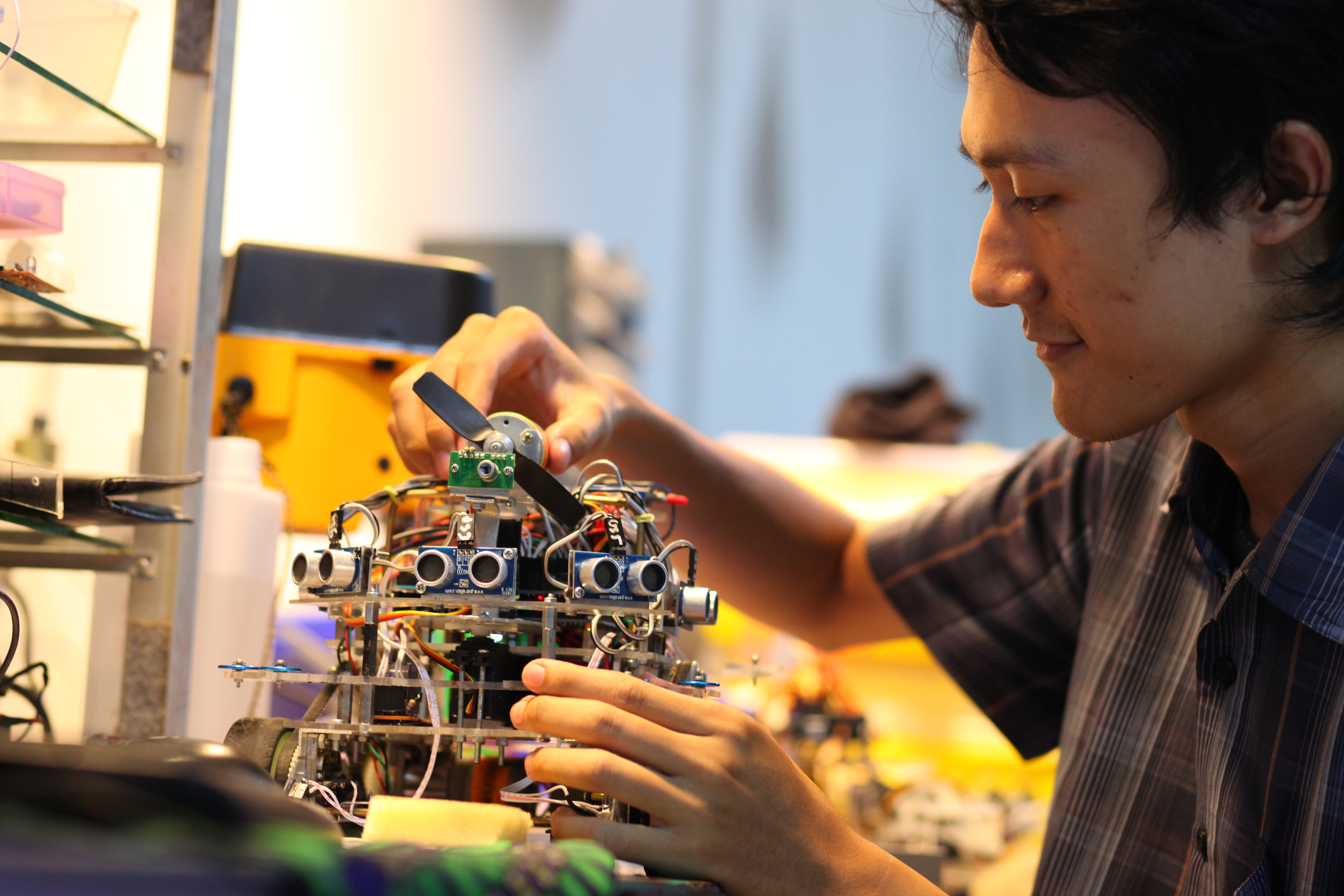 Experiment Lab